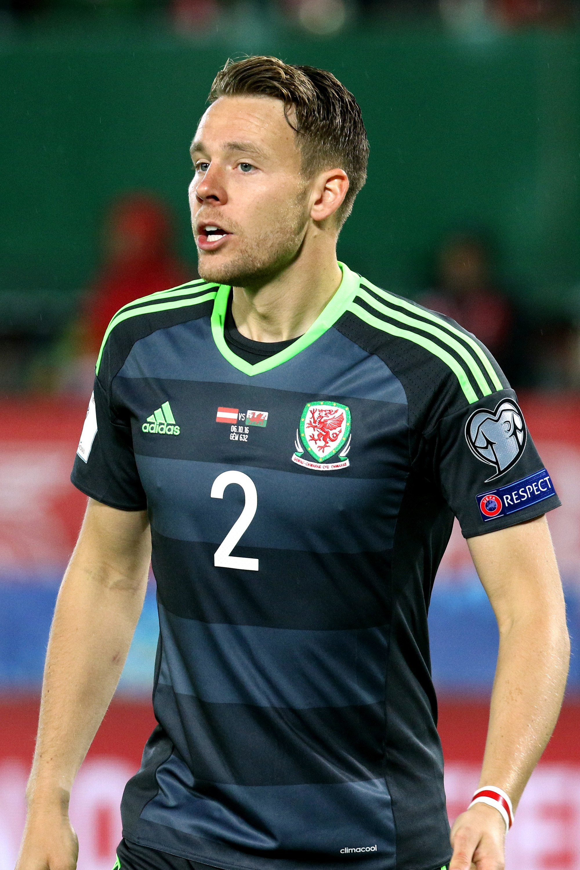 2018 FIFA World Cup qualification – UEFA Group D) – Austria (red shirts) vs. Wales (white shirts) 2-2 (1-2) – 2016-10-06 in Vienna, Ernst-Happel-Stadion – The photo shows Chris Gunter.